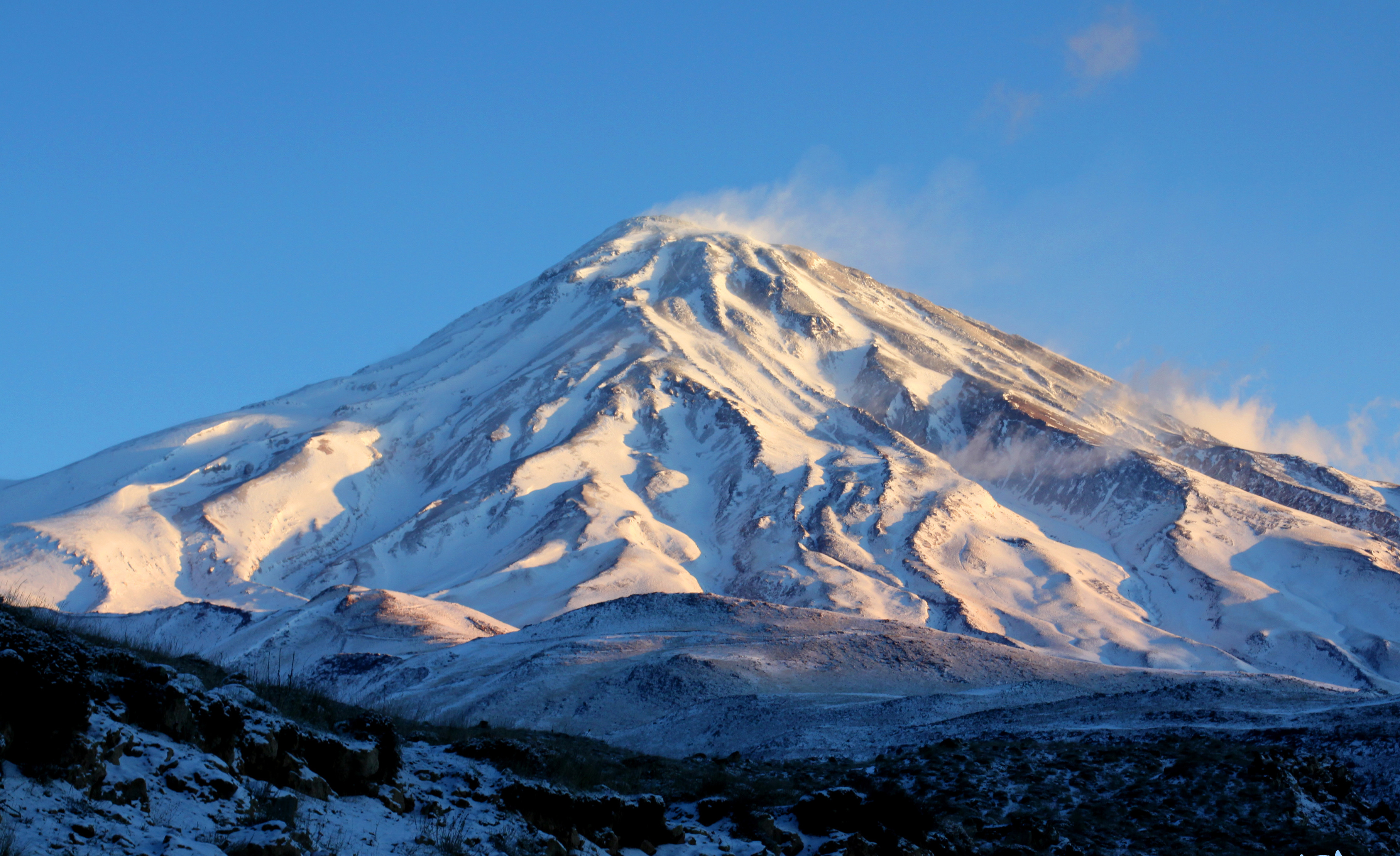 Damavand Mountain, The south side - Mazandaran Province, Iran - January 2, 2010 - Photo by: Safa Daneshvar - Thanks to Mr. Reza Ziari